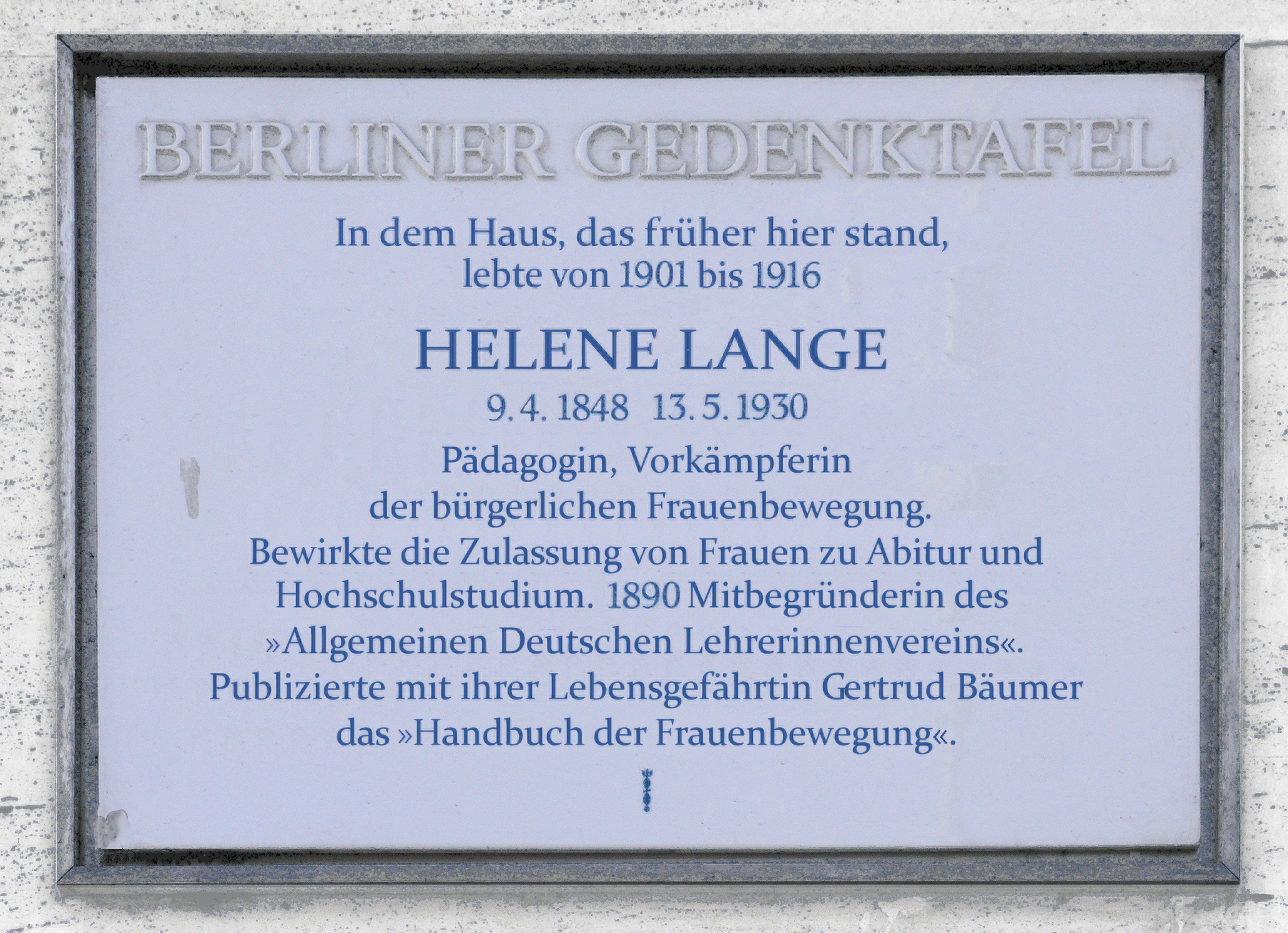 Porcelain Berlin Memorial Plaque on the house at Kunz-Buntschuh-Straße 7 in Grunewald, Germany. The house, that previously stood, where Helene Lange lived from 1901 until 1916.